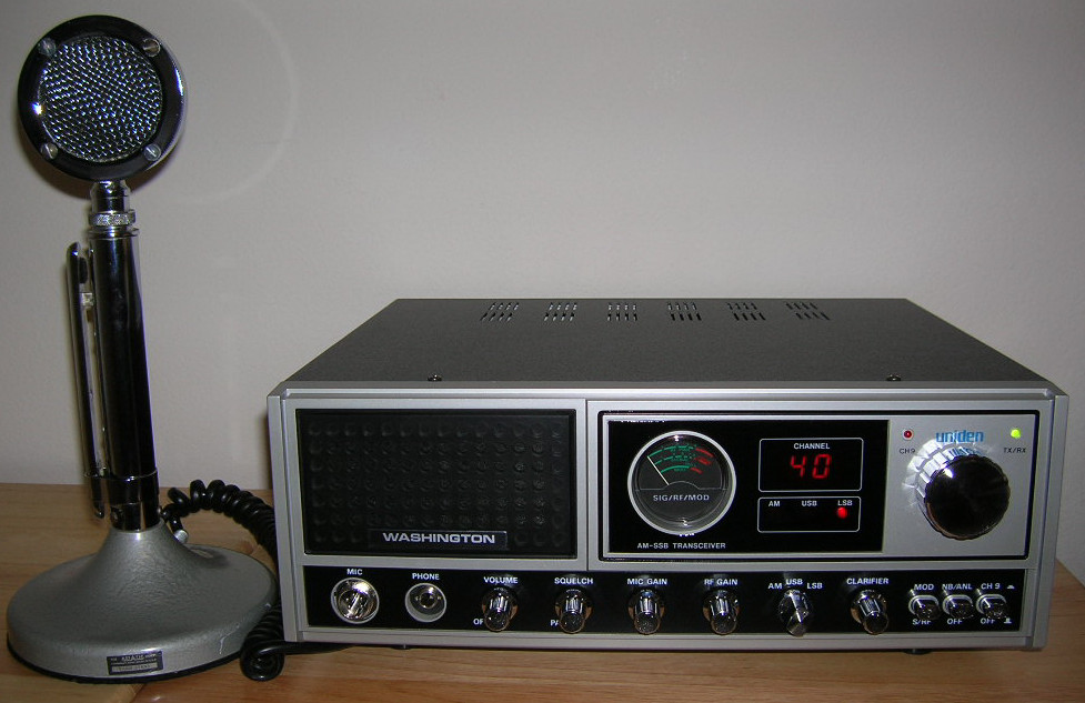 This is my own work. I release into public domain.